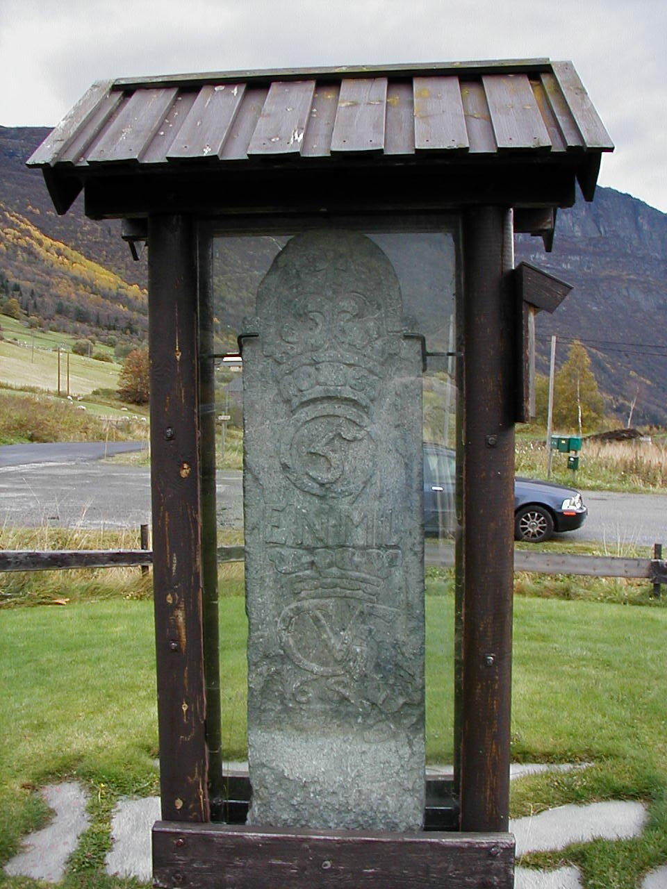 Milestone from the times of Christian V of Denmark and Norway in Øvre Dalen, Vang, Valdres, Norway.